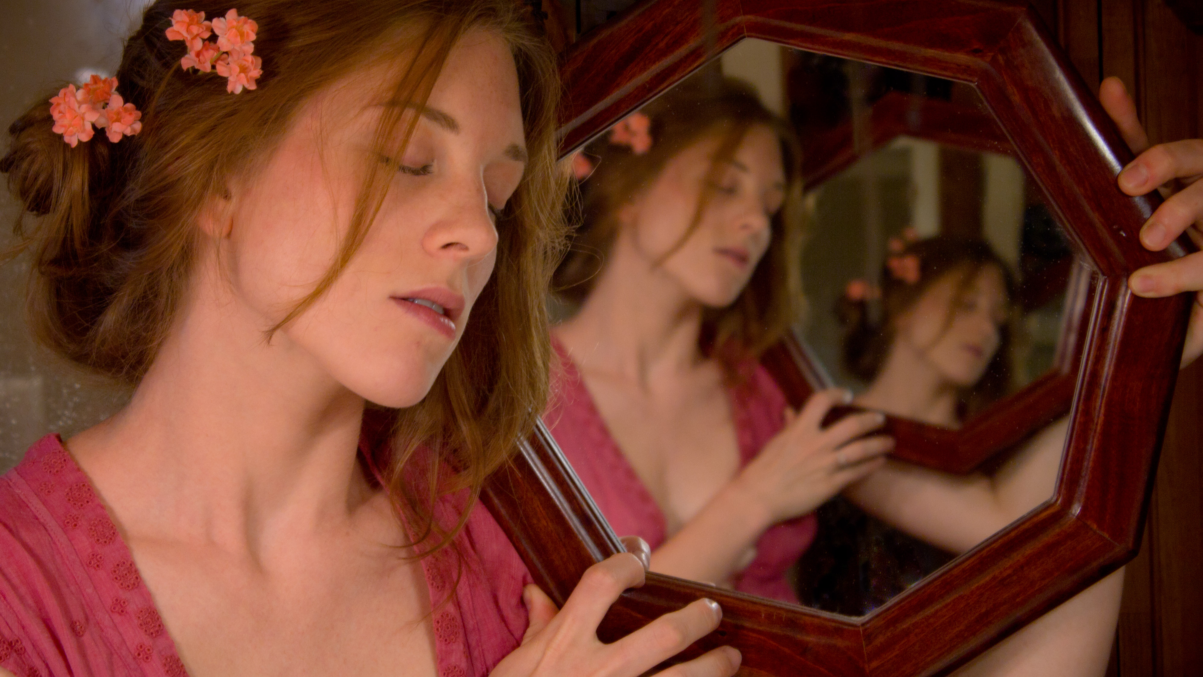 Dreamy